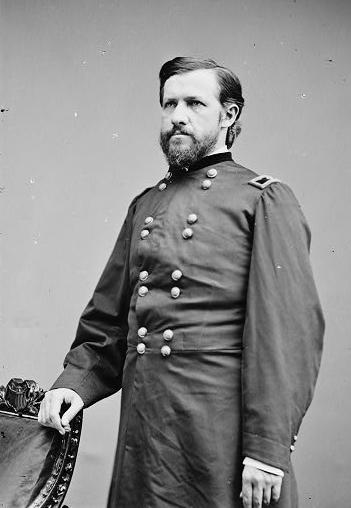 Major General Thomas Ewing, Jr. (1829-1896), United States Army